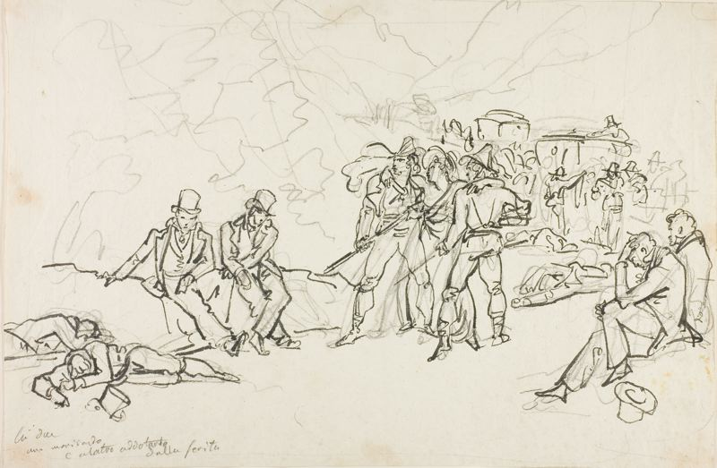 The Stagecoach Holdup by brigands